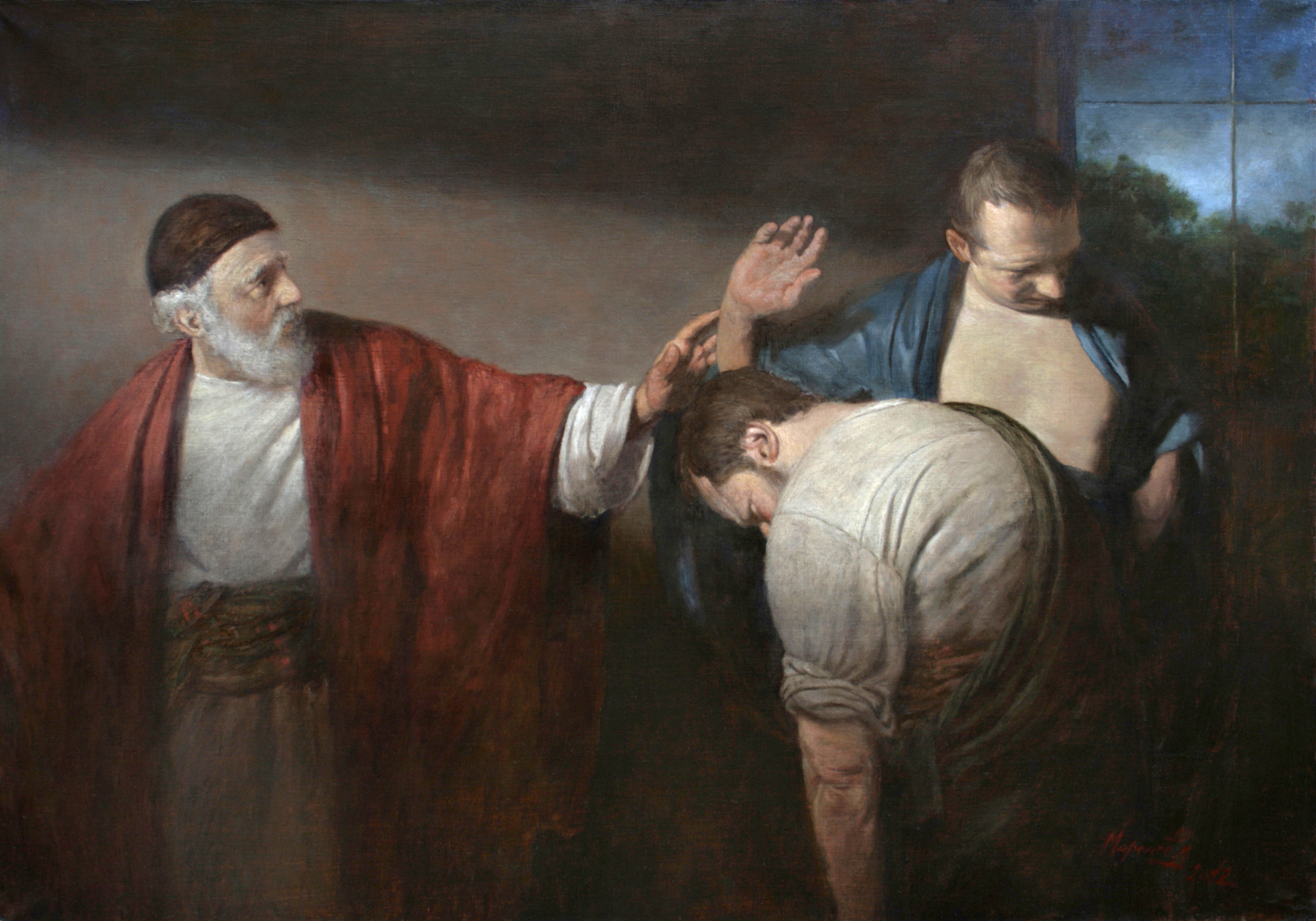 Parable of the two sons. 2012. Canvas, oil. 70 x 100. Artist A.N. Mironov